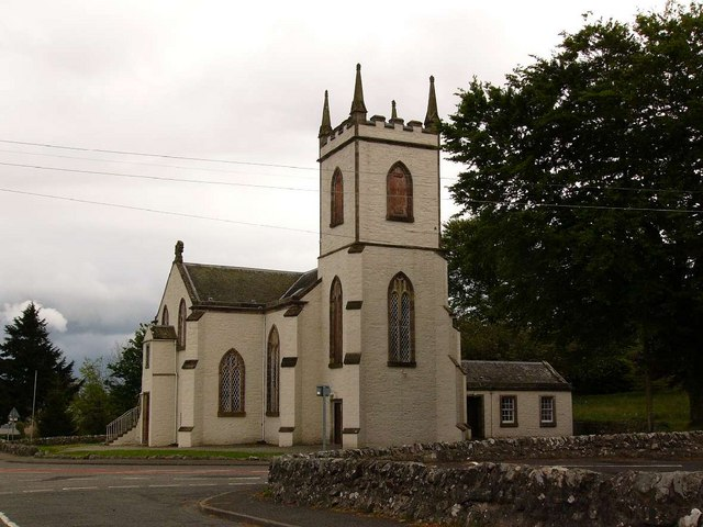 Kirkcowan Church from the north